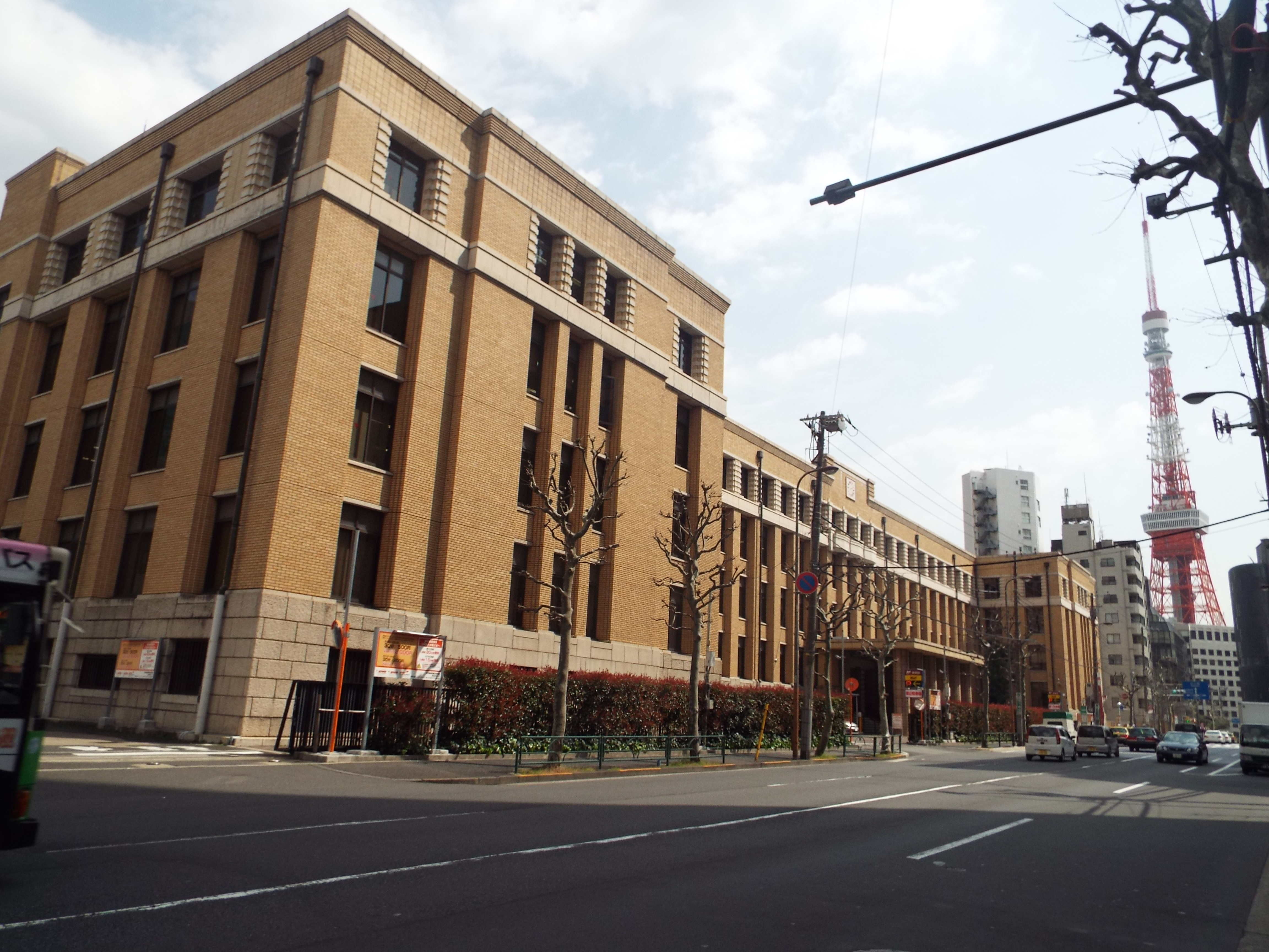 Built in 1930. Gaien Higashi-dori avenue.